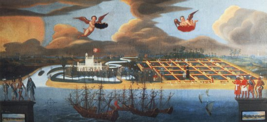 17th century painting of colonial Tanquebar from the air. The original is located in Skokloster, Sweden.